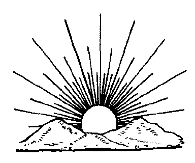 A Symbol used in the Indian general Election 1951/52